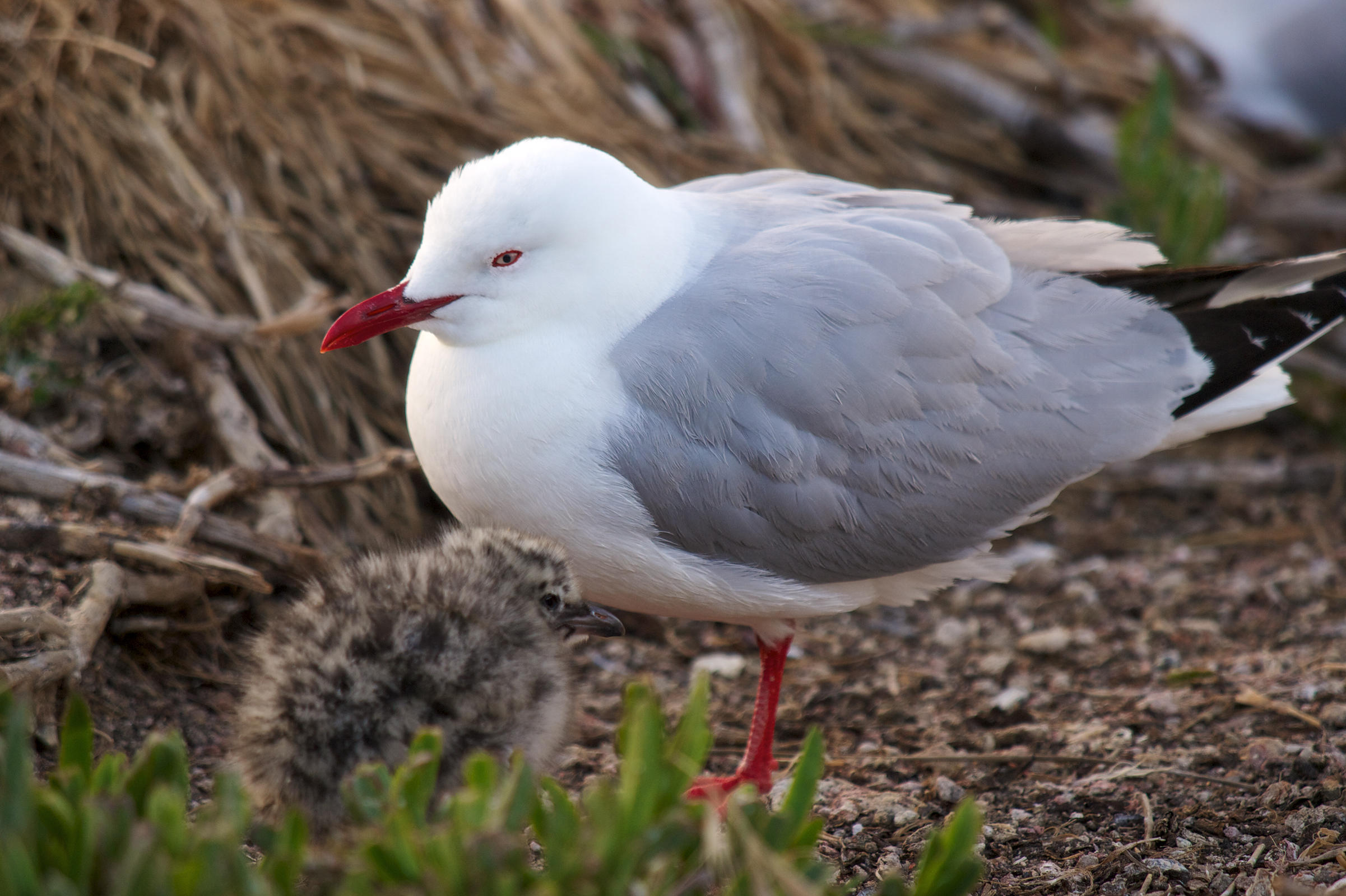 Red billed Gull (Chroicocephalus scopulinus) with chick, Harington Point, New Zealand